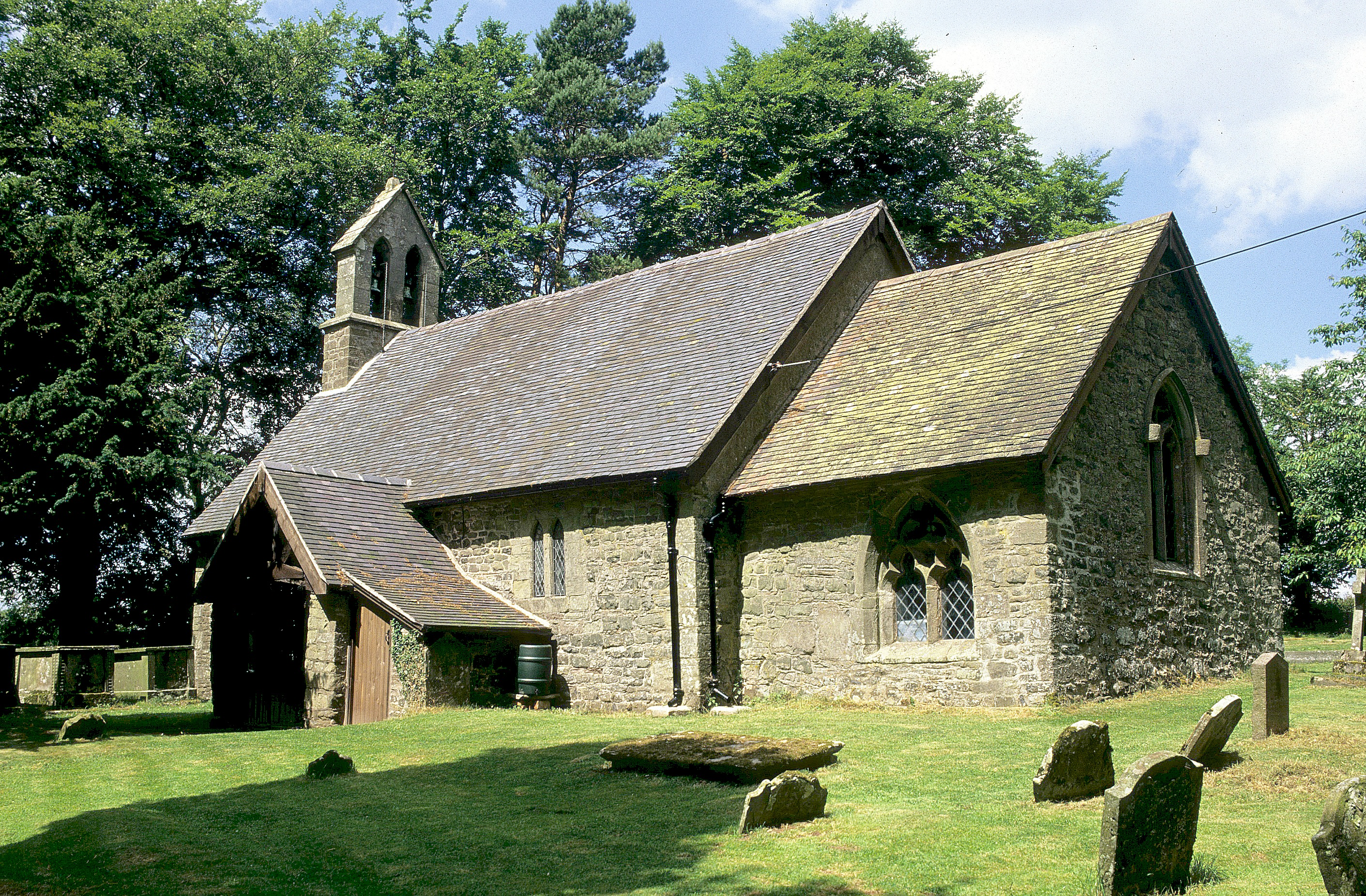 Church Of St Margaret Wikidata has entry Q17551490 with data related to this item.